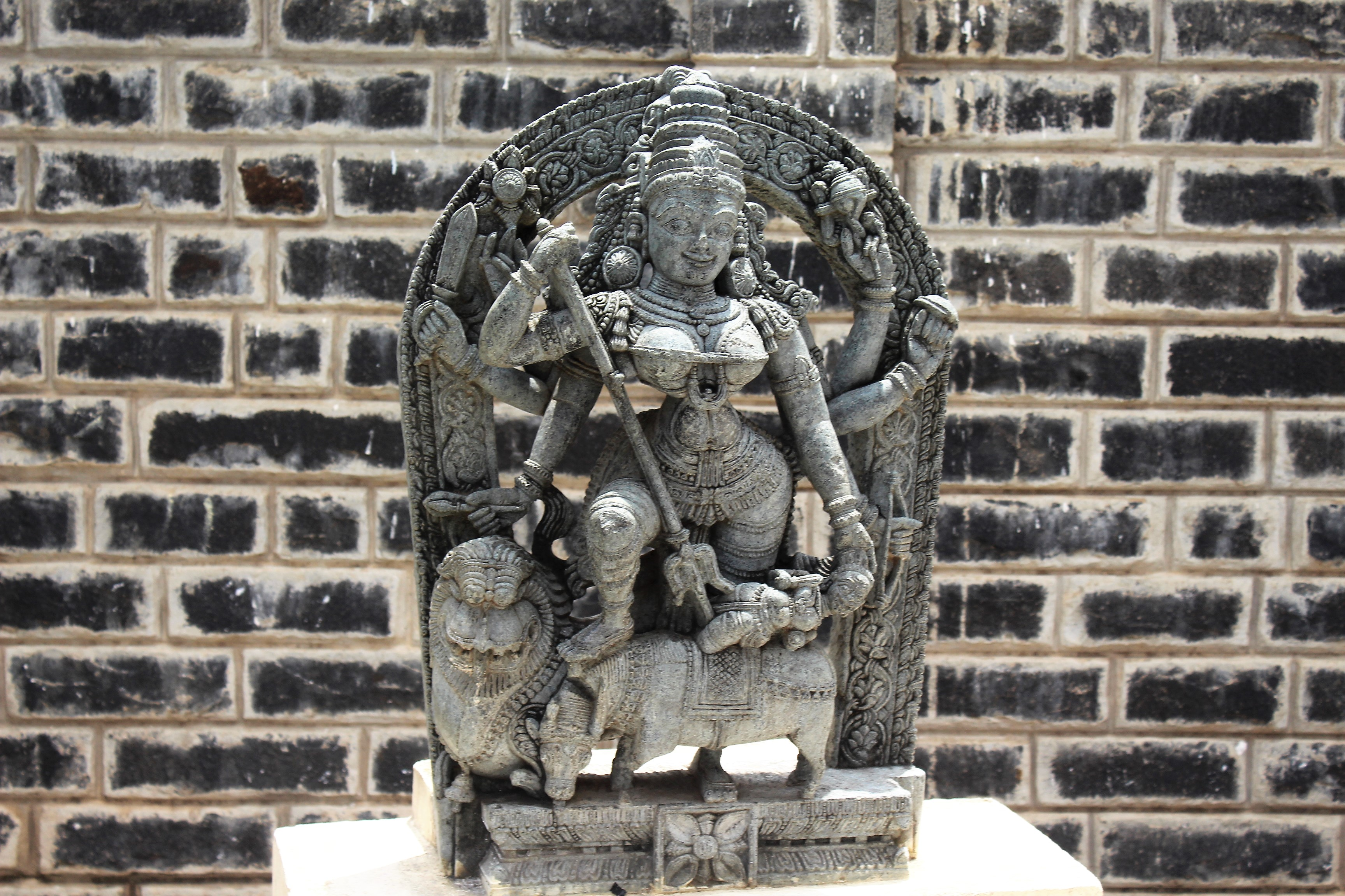 The Amaravati Archaeological Museum is a museum located in Amaravati, a village in Guntur district of the Indian state of Andhra Pradesh.